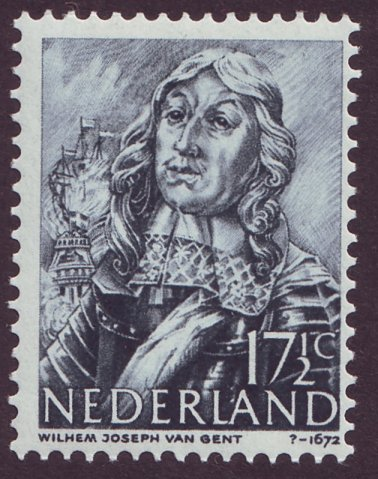 Admiral Willem Joseph van Gent (or Wilhem Joseph van Ghent) on a stamp from 1944.